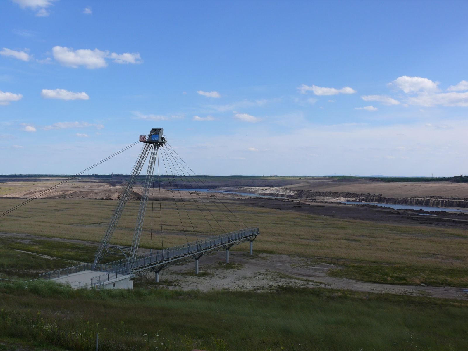 The New Ilse Lake at Großräschen with the Bridge. Begin of the flooding 15. March 2007